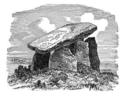 Trethevy Quoit - Liskeard - Cornwall - UK